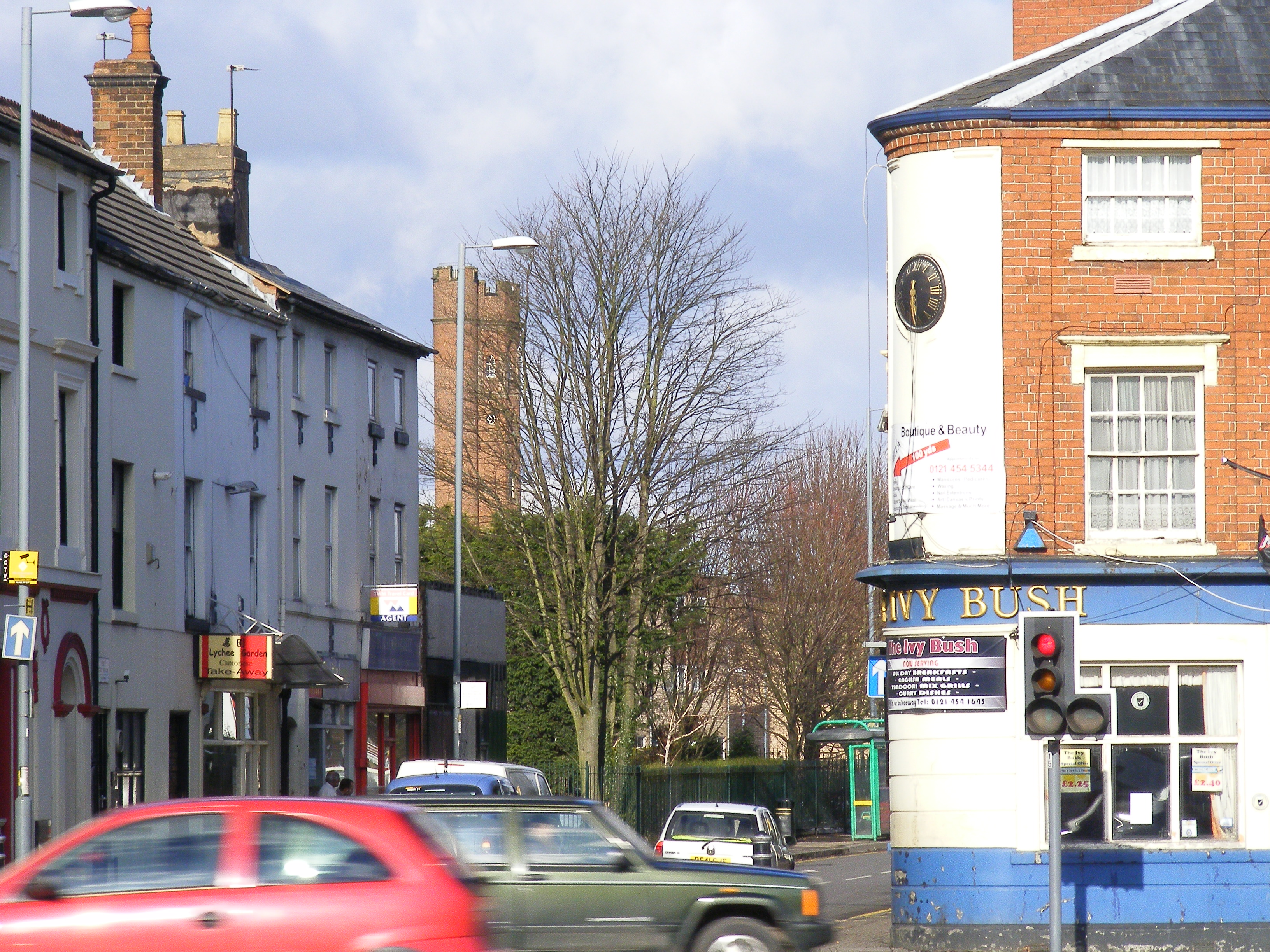 The Ivy Bush is the closest public house to Birmingham Oratory, where young J. R. R. Tolkien was sent to be taught Catholicism. Gaffer Gamgee was said to "hold forth in the Ivy Bush" in the first chapter of "The Lord of the Rings"[1]. Perrott's Folly stands nearby. This, and the Victorian tower of the waterworks, are thought to be the model for the Twin Towers of Mordor in "The Lord of the Rings".